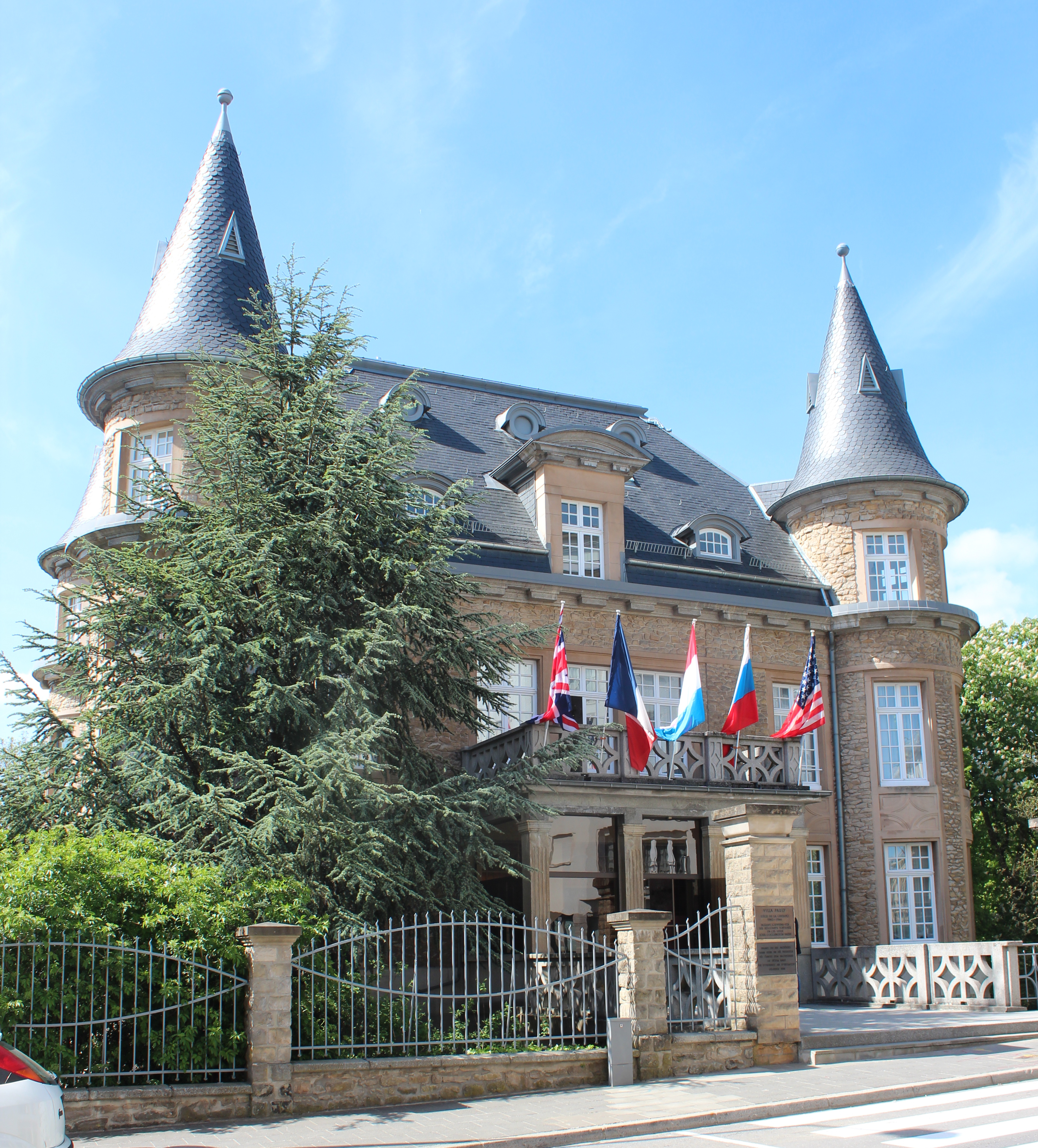 Villa Pauly, 1940-44 used as Gestapo headquarters in Luxembourg city. The Allied flags have been set for the occasion of the 70th anniversary of the end of WWII in Europe.